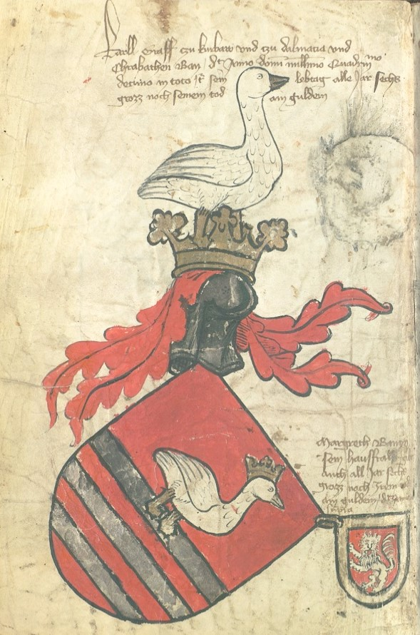 Gusić family noble branch Kurjaković coat of arms from Wiener handschrift auptbuch der Bruderschaft St. Christoph auf dem Arlberg, Handschrift Weiss 242, Haus-, Hof- und Staatsarchiv, Wien.